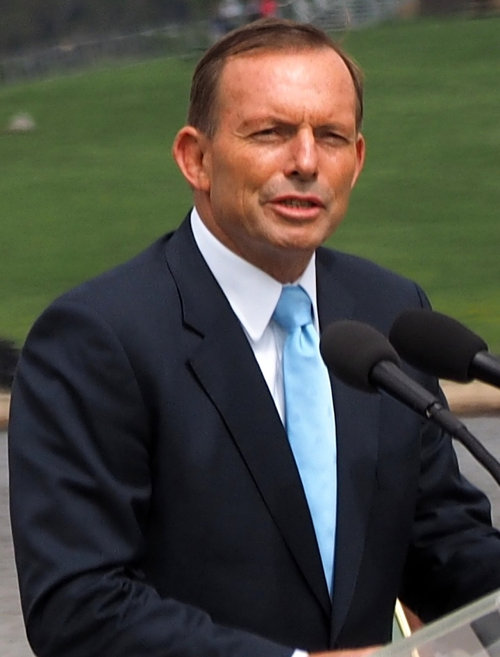 Tony Abbott speaking at the 2015 National Flag Raising and Citizenship Ceremony